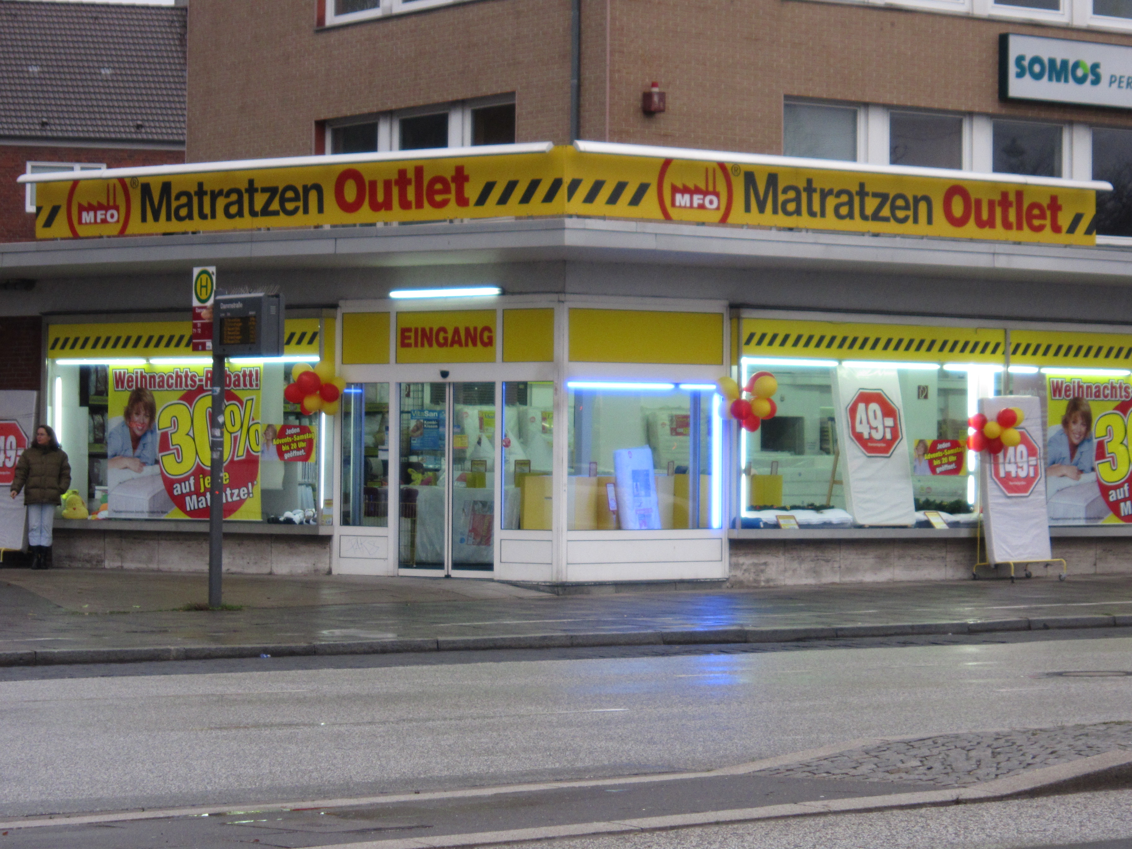 MFO store in Kiel